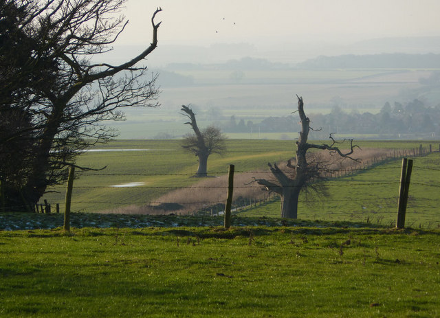 View to Grove Park View down the gentle slopes from a path across the fields.